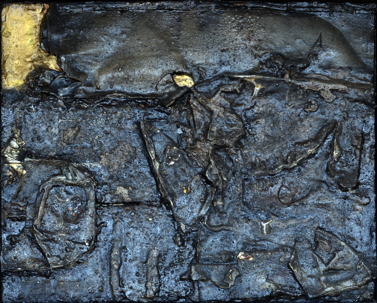 Zbyšek Sion, combined technique (1961)